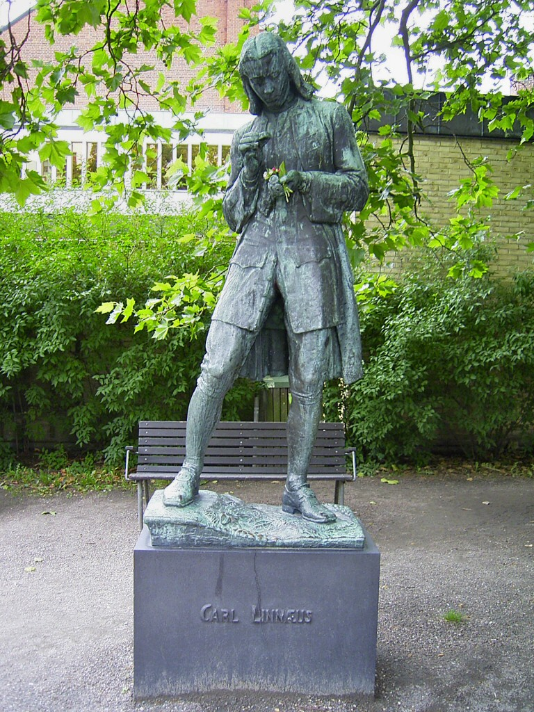 Statue of Carl von Linné in Lund (Sweden)